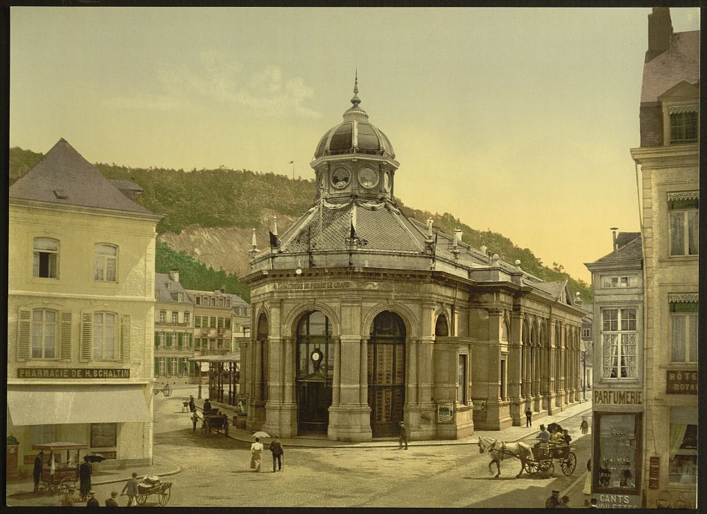 [Pouhon, Spa, Belgium] [between ca. 1890 and ca. 1900]. 1 photomechanical print : photochrom, color. Notes: Title from the Detroit Publishing Co., catalogue J, foreign section. Detroit, Mich. : Detroit Publishing Company, c1905. Print no. "8623". Forms part of: Views of architecture and other sites in Belgium in the Photochrom print collection. Format: Photochrom prints--Color--1890-1900. Rights Info: No known restrictions on reproduction. Repository: Library of Congress, Prints and Photographs Division, Washington, D.C. 20540 USA Part Of: Views of architecture and other sites in Belgium (DLC) 2001696375 Persistent URL: Call Number: LOT 13422, no. 106 [item] This image is available from the United States Library of Congress's Prints and Photographs division under the digital ID missing.This tag does not indicate the copyright status of the attached work. A normal copyright tag is still required. See Commons:Licensing for more information.